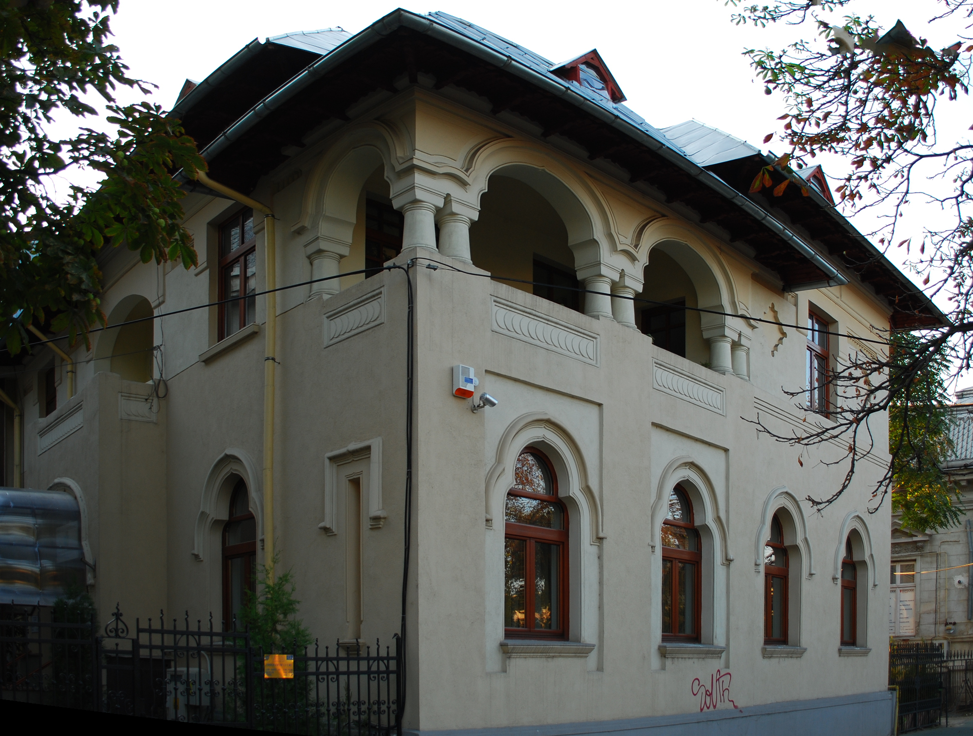 CG Angelini house in Ploieşti, RomaniaRomână: Casa CG Angelini din Ploieşti, România